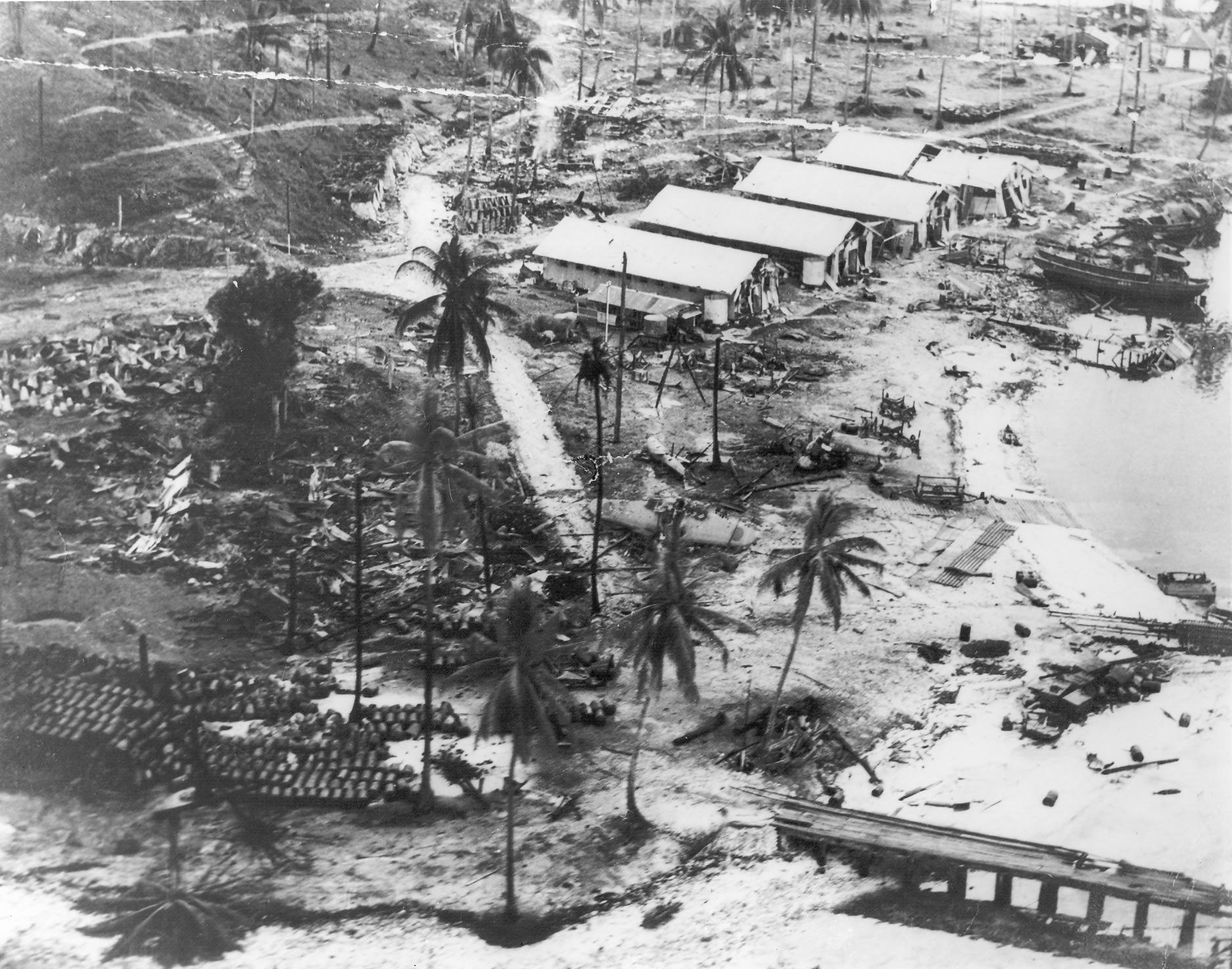 View of the seaplane base on Tulagi taken by a U.S. Navy Douglas SBD-3 Dauntless from the aircraft carrier USS Saratoga (CV-3) flown by Commander Harry Don Felt, August 1942.